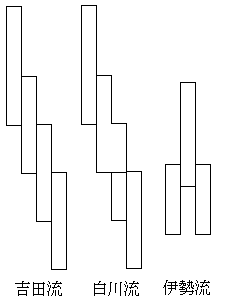 Types of shinto shide 紙垂の種類